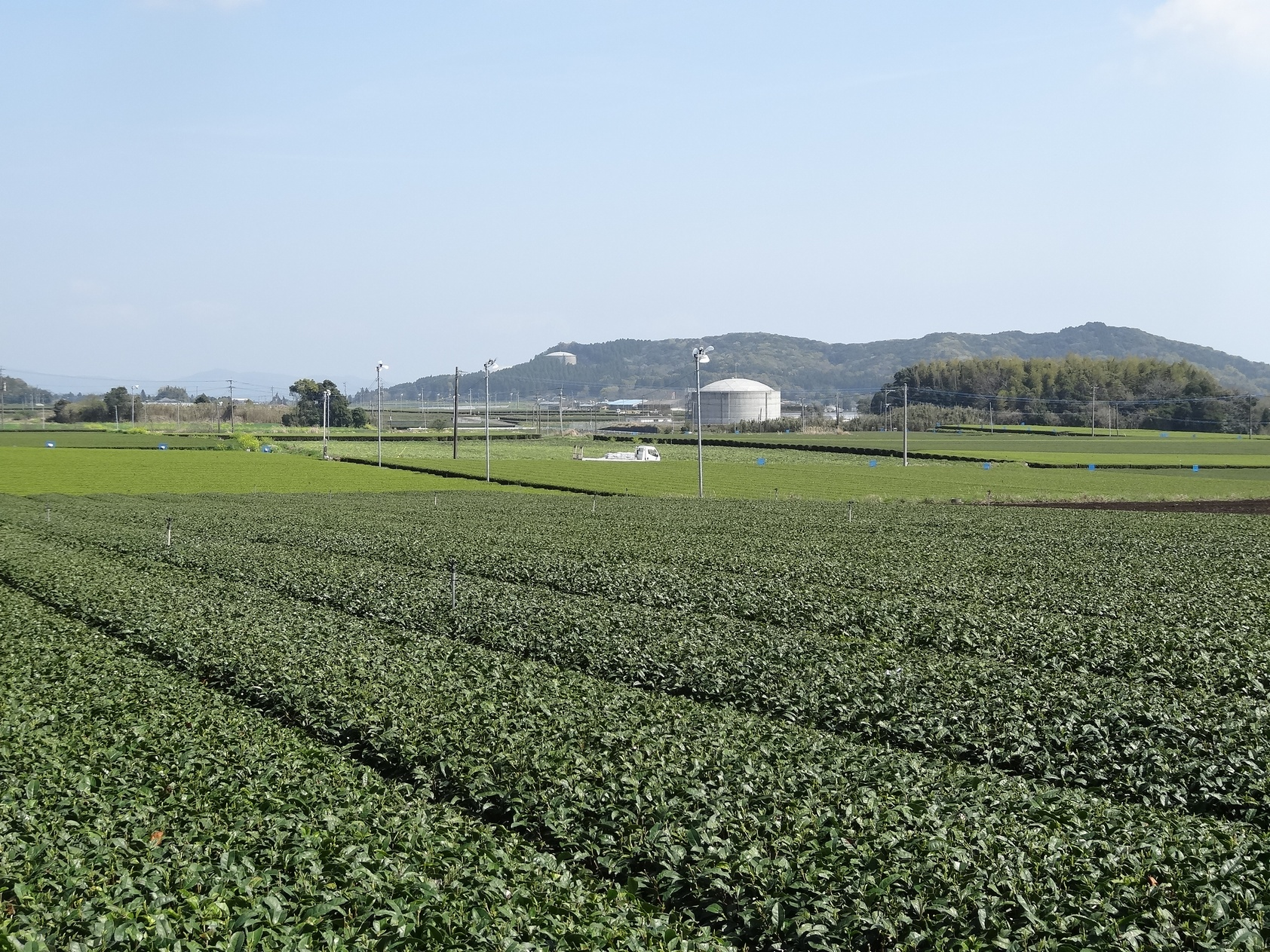 The Tea Plantation in Nogami, Ariake, Shibushi City, Kagoshima Prefecture, Japan)